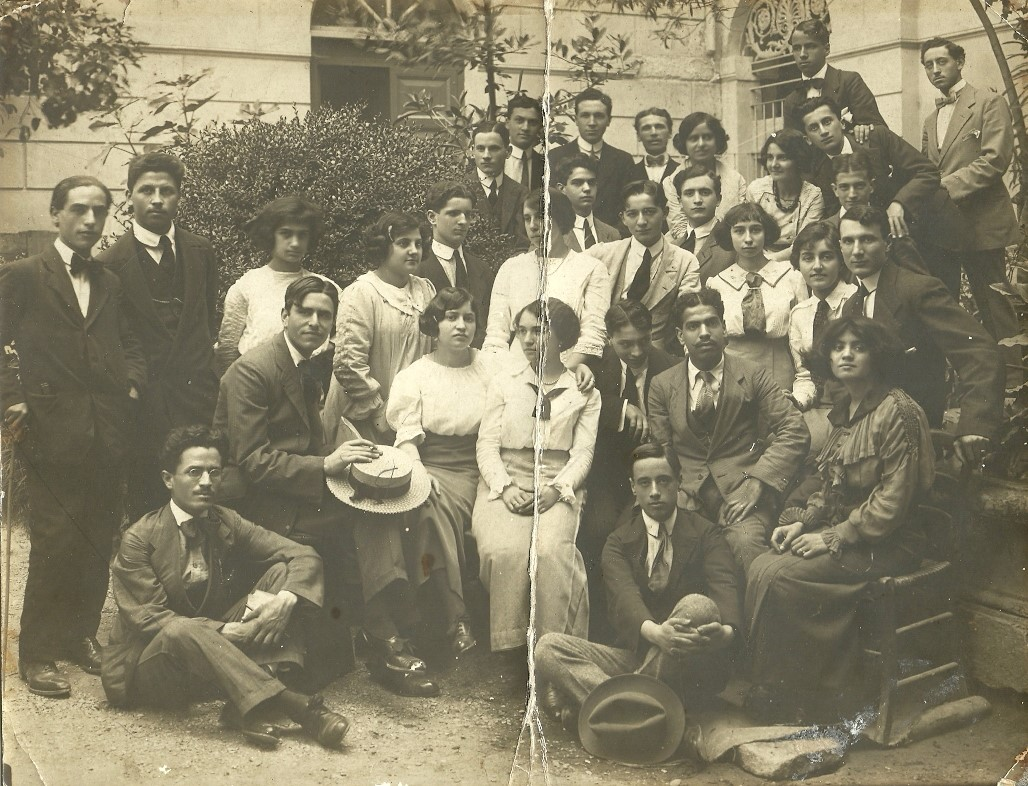 Private scan of Ezio Ercoli during the 1911 Scuola delle Belle Arti class